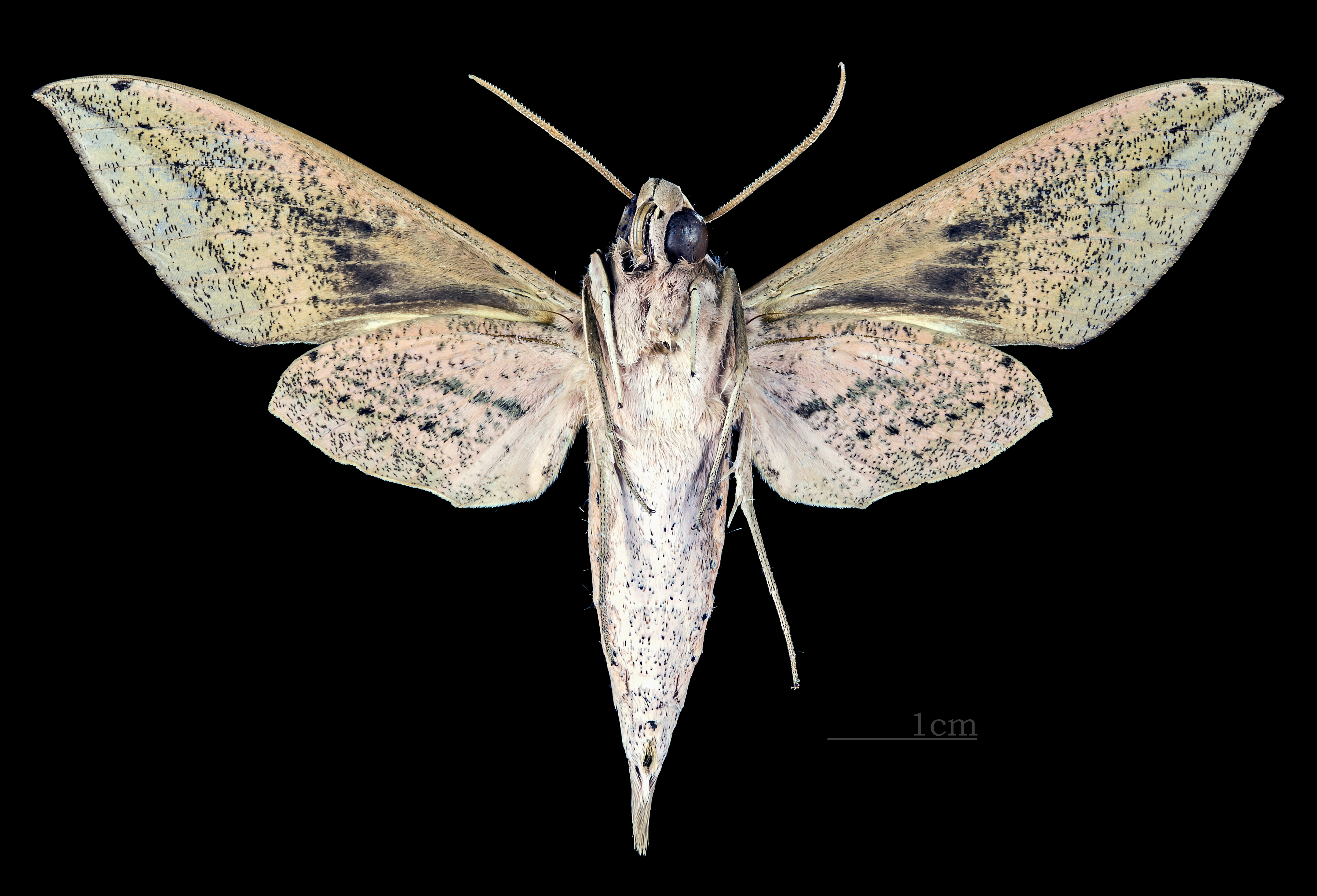 Theretra radiosa - △ Ventral side Collection of the Mathematician Laurent Schwartz